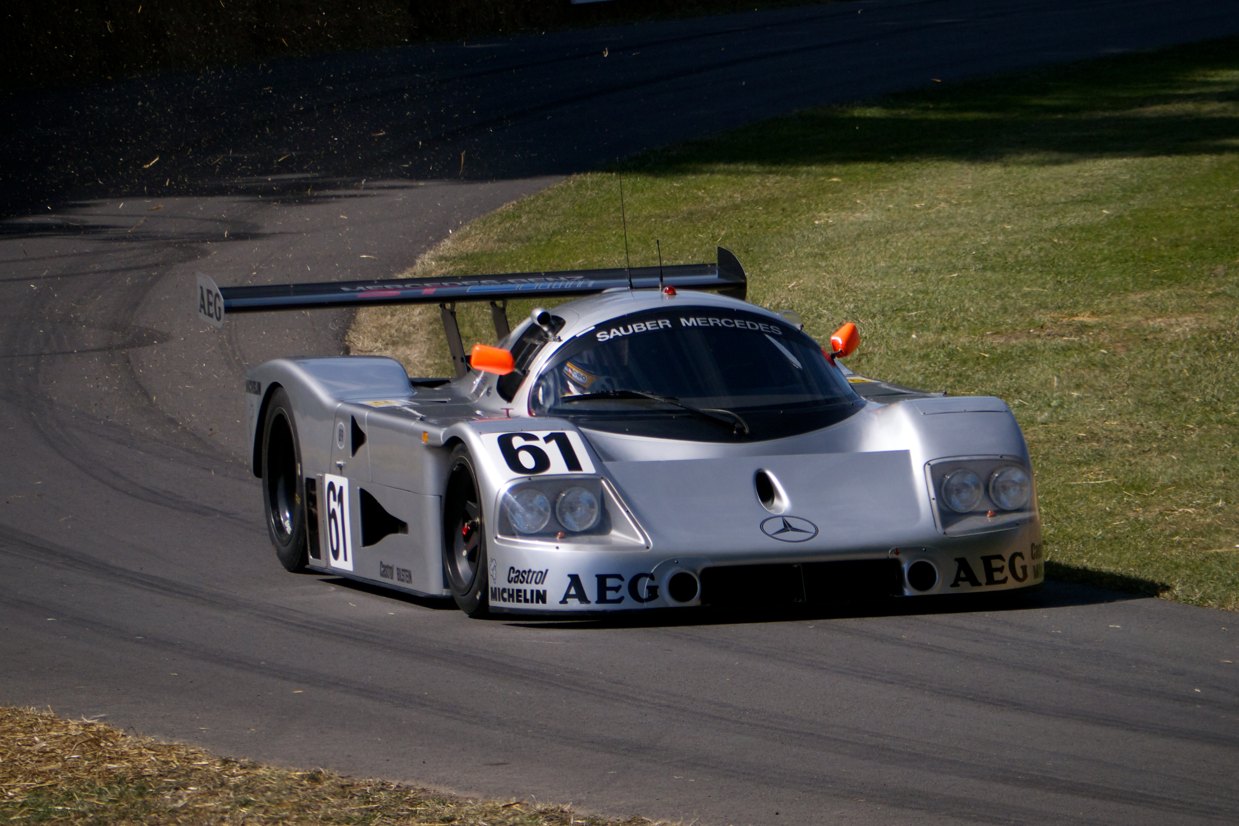 The Sauber C9 at the 2014 Goodwood Festival of Speed.